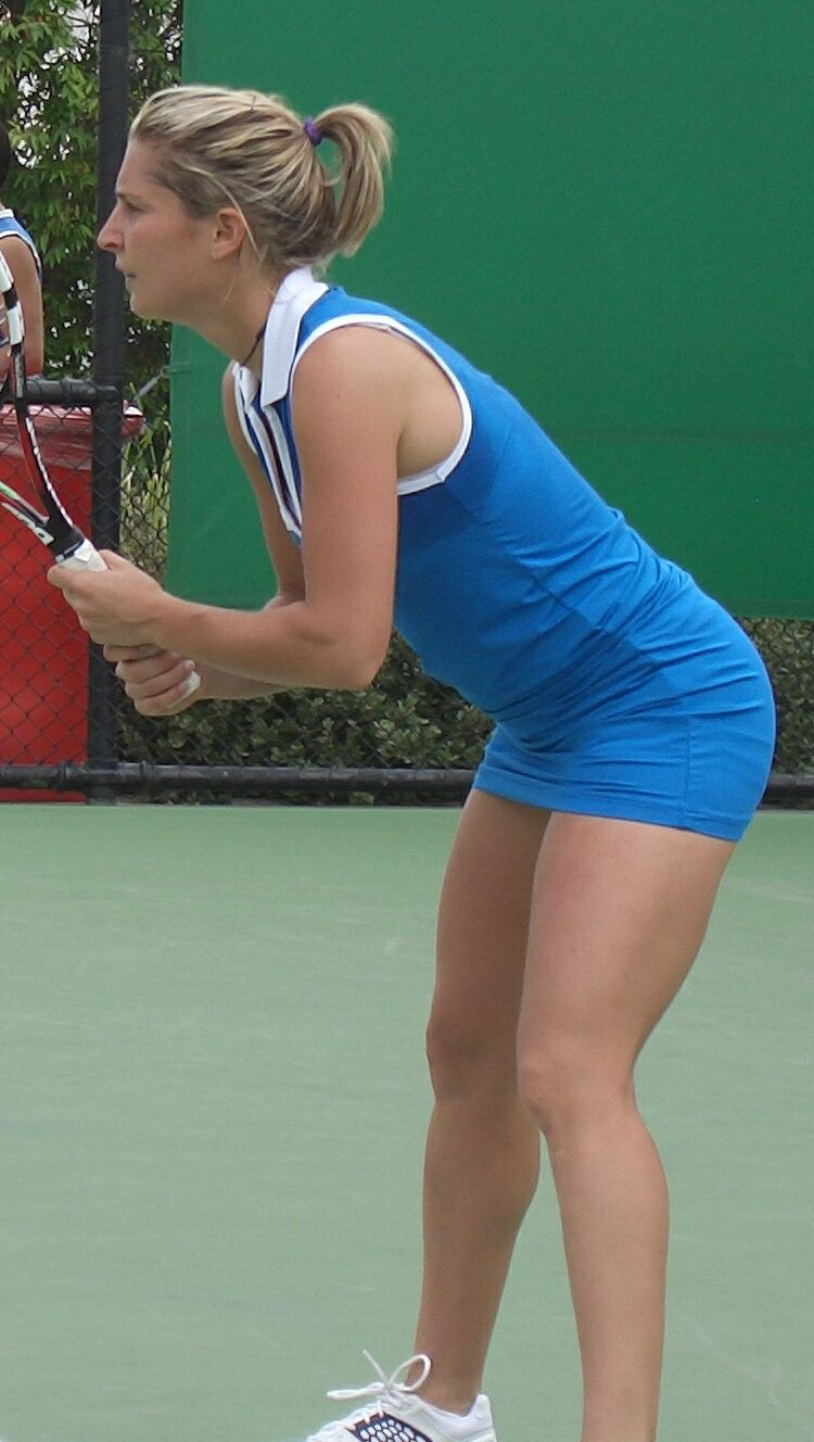 Maria Elena Camerin in her first-round match of the 2006 Australian Open. She played Yvonne Meusburger. Camerin won.